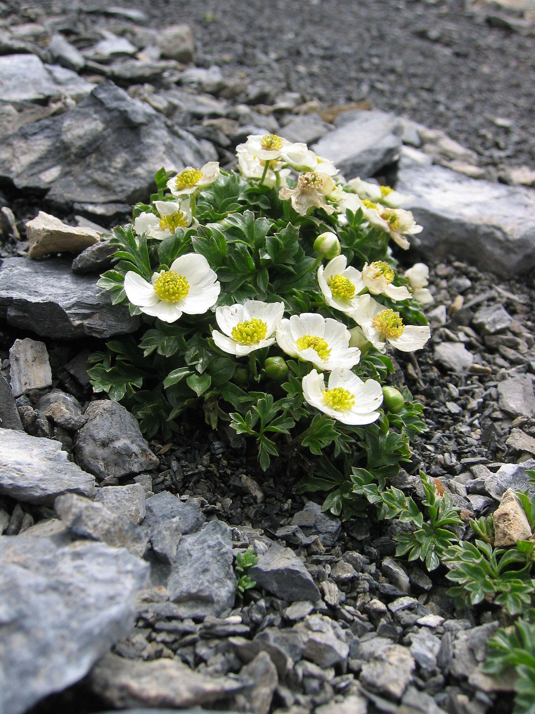 Ranunculus seguieri, South of Große Kinigat, Carnic Alps, Austria